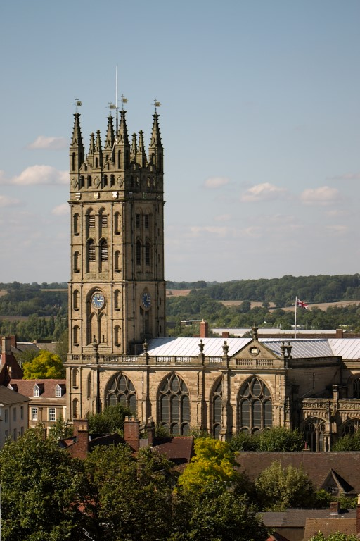 St. Mary's church in Warwick, UK the tower as viewed from the top of Warwick Castle taken and uploaded by Matthew Field